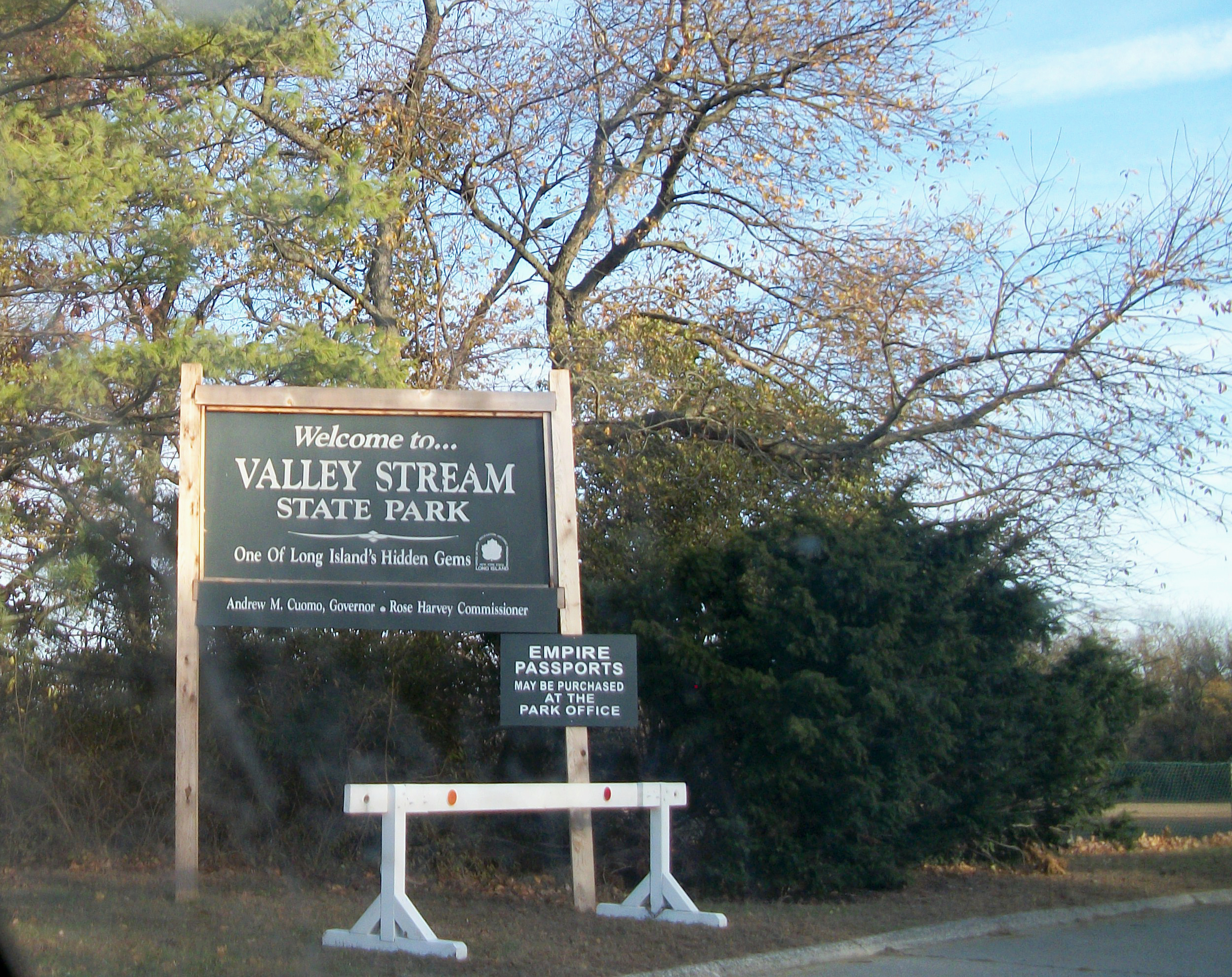 The welcome sign at the entrance for Valley Stream State Park from the Southern State Parkway off-ramp.